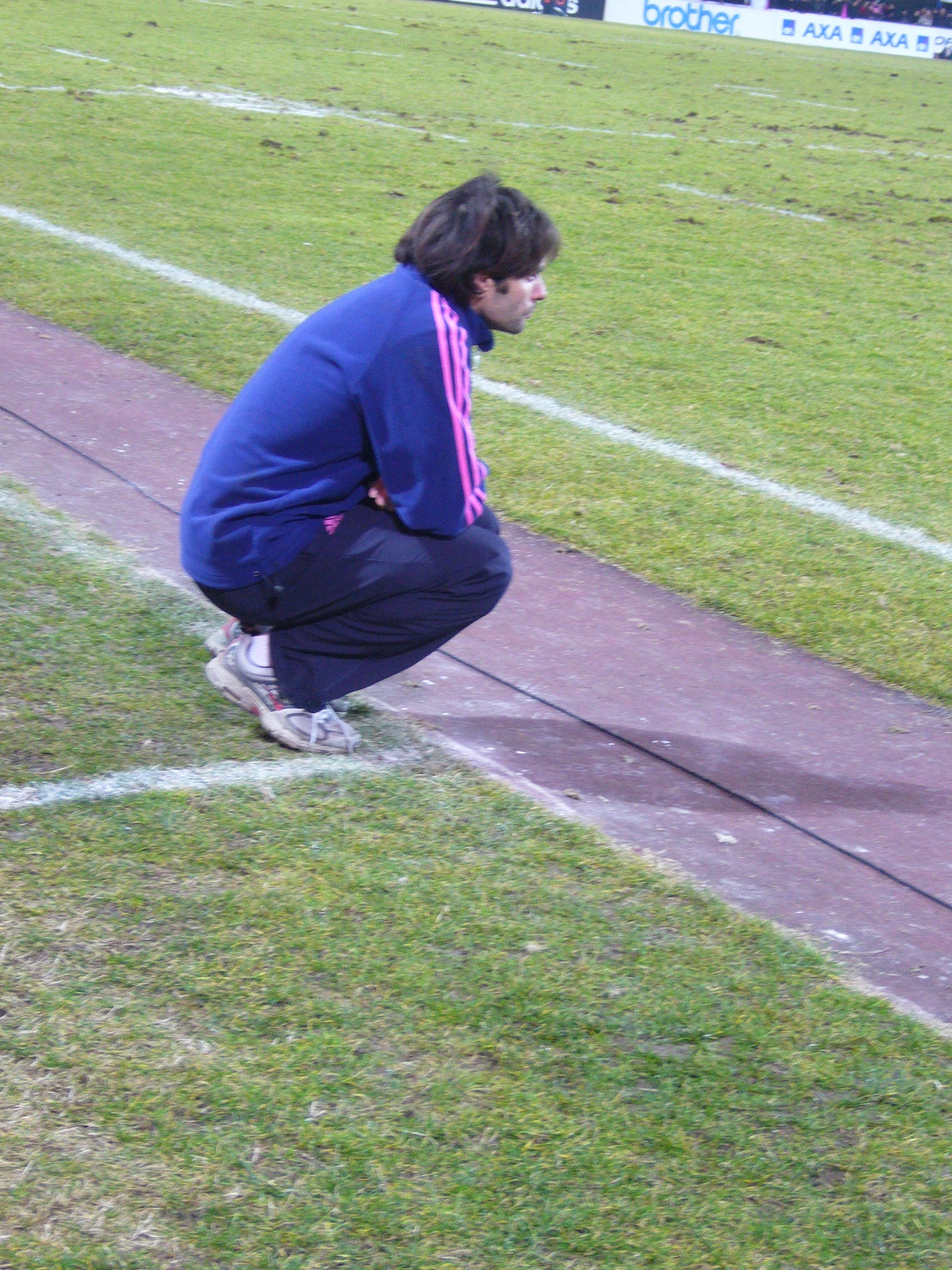 Top 14 (french rugby championship) Christophe Dominici Stade Français 22-12 Toulon